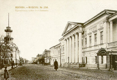 Prechistenka street in Moscow, Russia. Postcard.